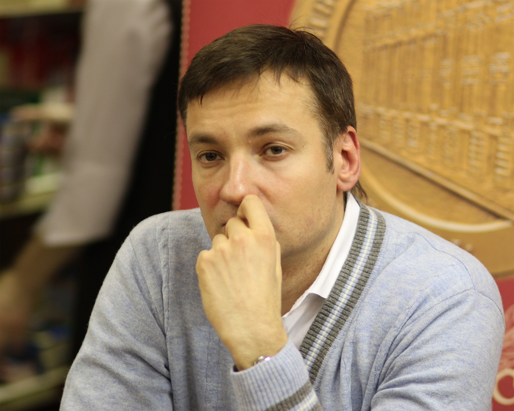 Russian film director Pavel Sanaev